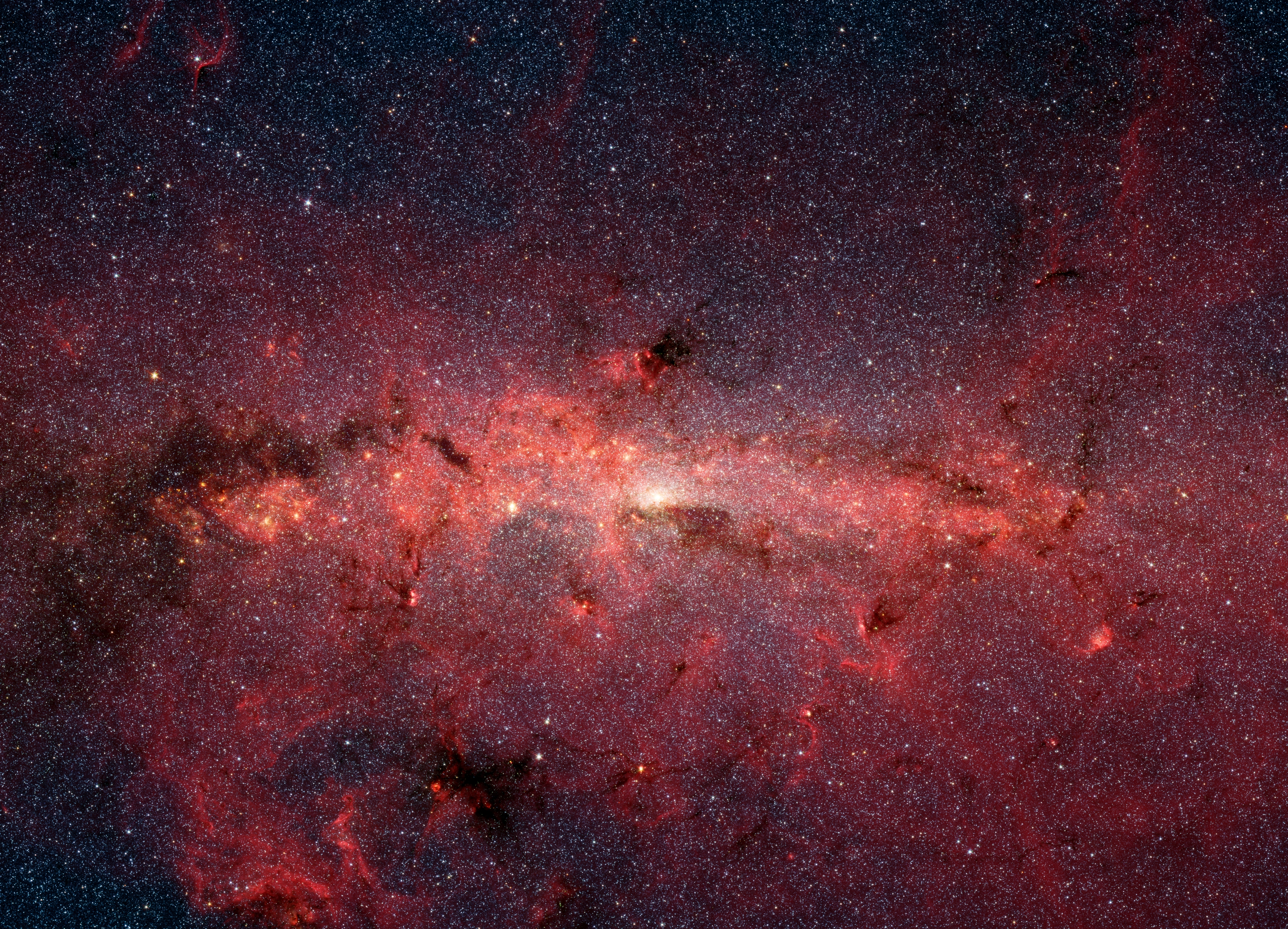 "This dazzling infrared image from NASA's Spitzer Space Telescope shows hundreds of thousands of stars crowded into the swirling core of our spiral Milky Way galaxy. In visible-light pictures, this region cannot be seen at all because dust lying between Earth and the galactic center blocks our view." Image downscaled (2x) from original.